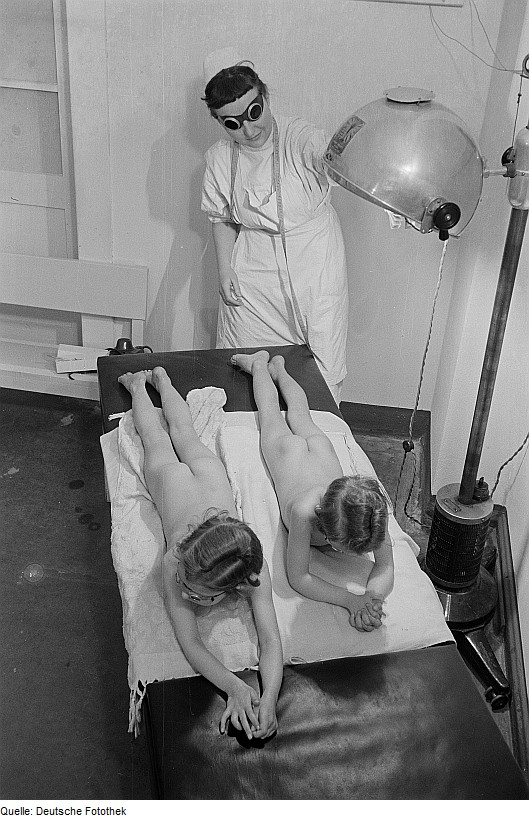 Children on a sun lounger for irradiation